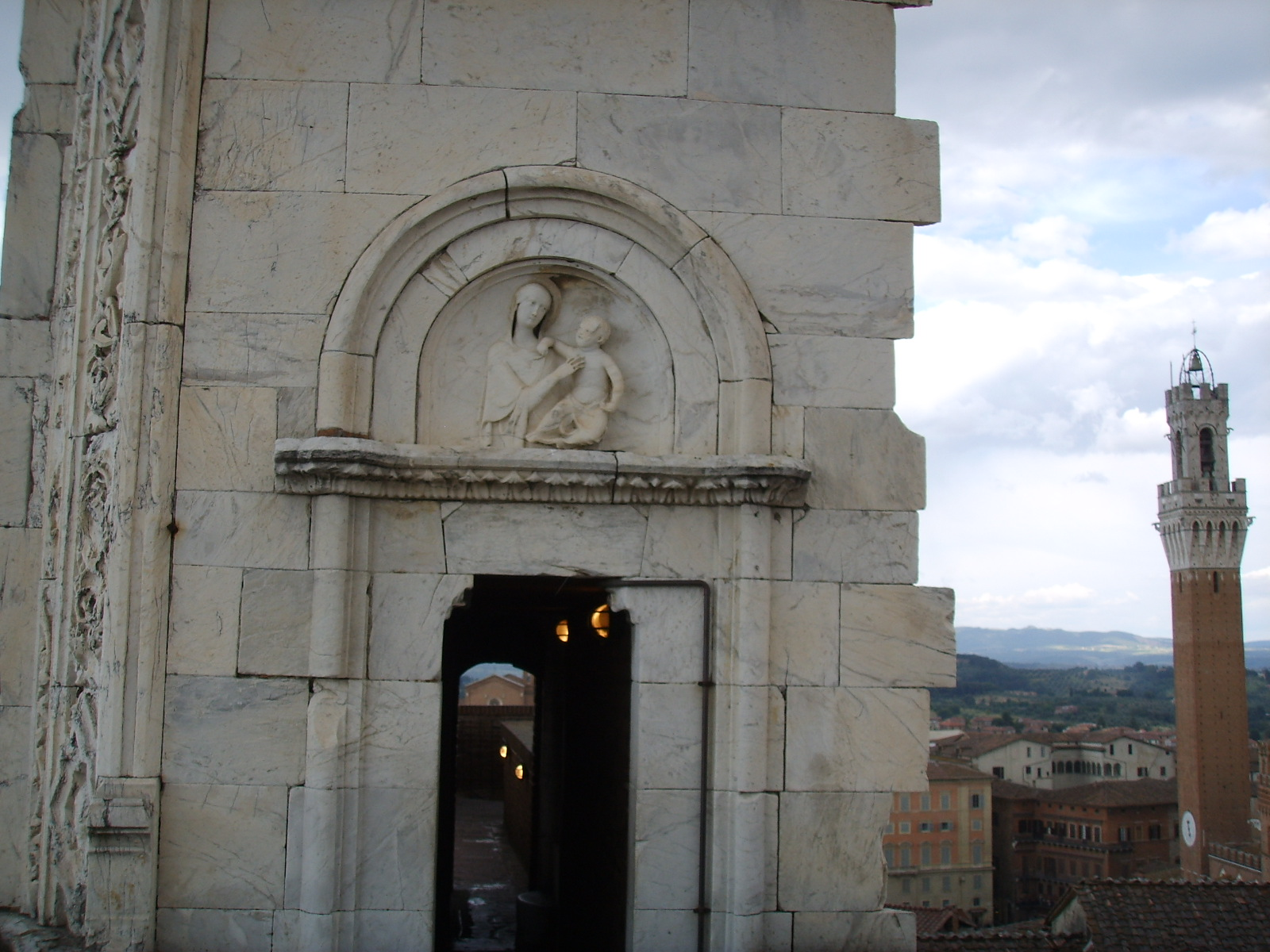 Cathedral, arch in the unfinished nave, in Siena, Italy